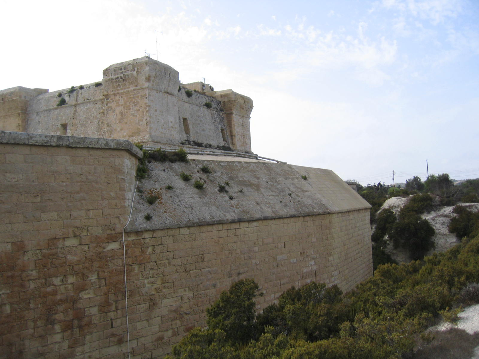 St Lucians's Tower, Marsaxlokk, Malta. Scarp and ditch of the Victorian battery. Copyright H.J.Moyes Sept 2005.